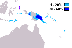 Distribution of haplogroup S-M230 of Y-chromosome, that spreads from Lesser Sunda Islands to Vanuatu.